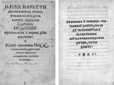 Cover page of the third edition of translation of the catechism written by Jacques Ledesma. Translator assumed to be Bartol Sfondrati (1541—1583).